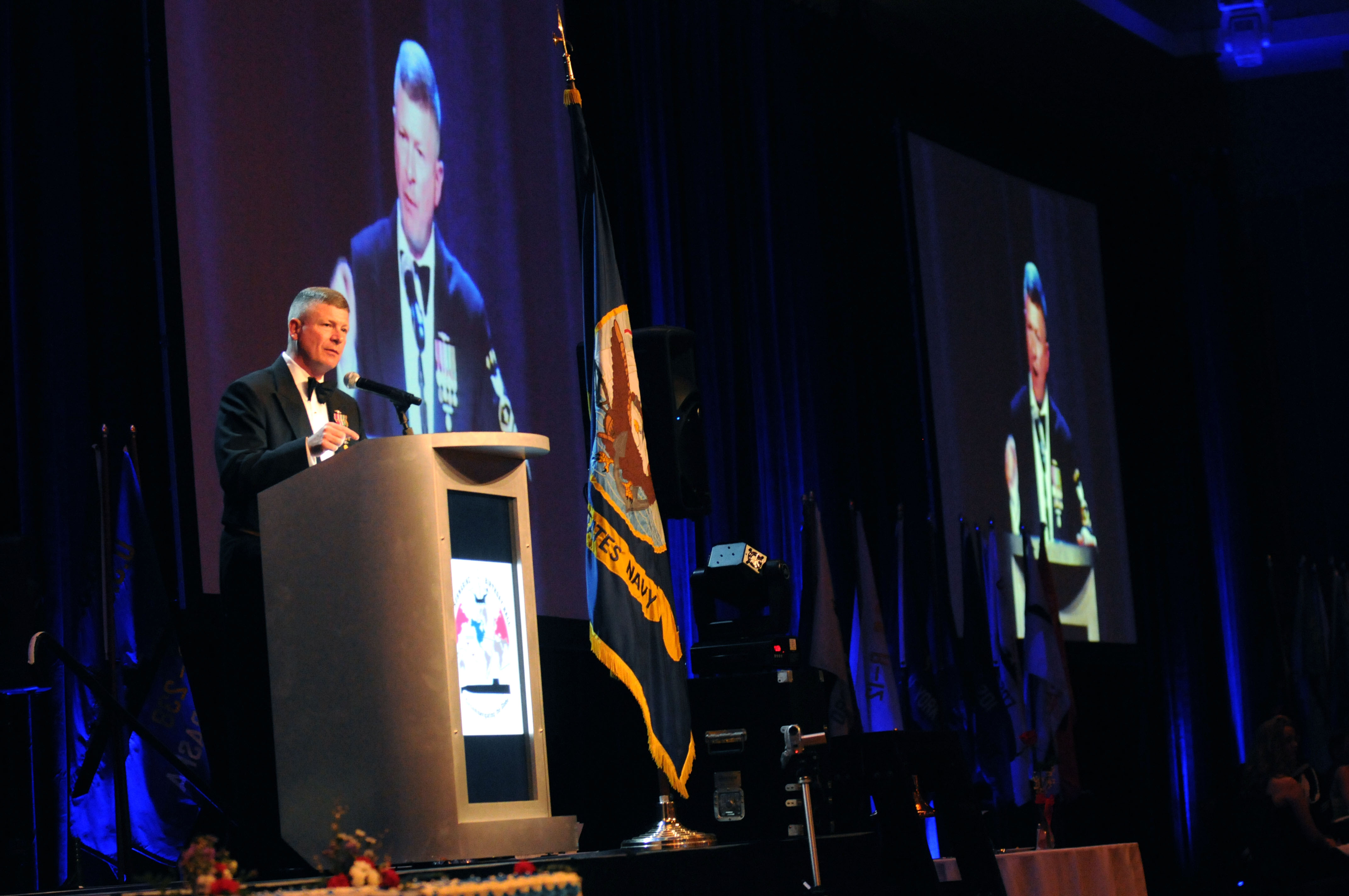 GROTON, Conn. (April 10, 2010) Master Chief Petty Officer of the Navy (MCPON) Rick West delivers remarks at the 110th Submarine Birthday Ball at the MGM Grand. The ball celebrated the 50th anniversary of the submerged circumnavigation of the world by the nuclear-powered radar picket submarine USS Triton (SSRN 586) in 1960. (U.S. Navy photo by Mass Communication Specialist 1st Class Jennifer A. Villalovos/Released)